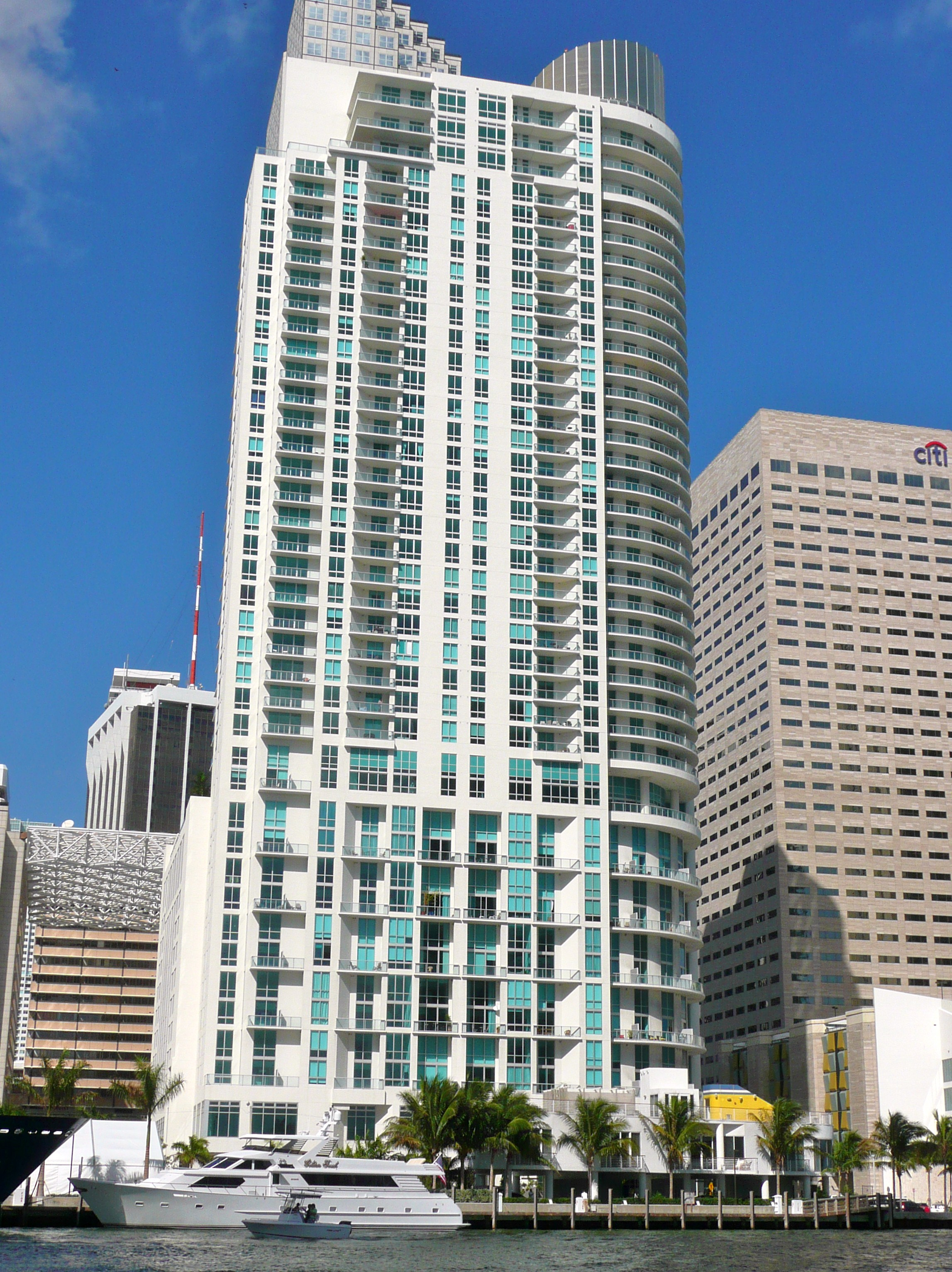 Digital photo taken by Marc Averette. Met 1 in Downtown Miami, Florida, United States.